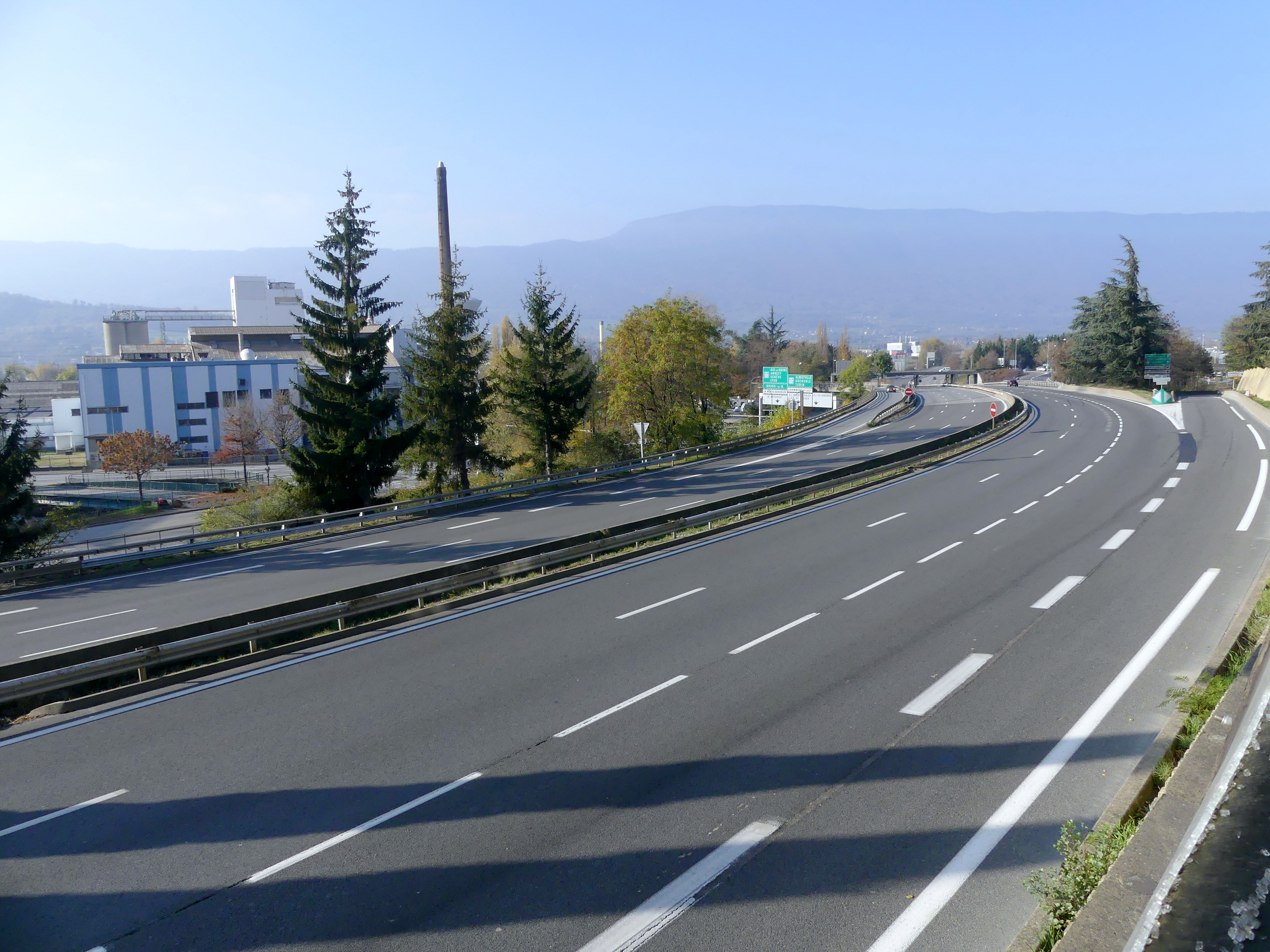 Unusual sight of the urbain motorway of Chambéry (Savoie, France) with very few vehicles due to the Gilets jaunes protests blocking movement occuring.